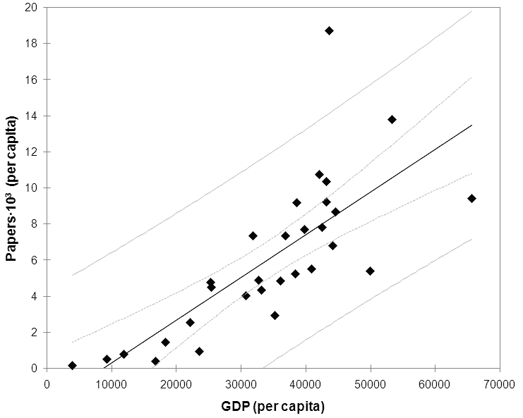 Number of Papers per capita vs. GDP per capia Sources: Number of papers: Larivière et al. "Bibliometrics: Global gender disparities in science" GDP: Data in articles of Wikipedia for 2012.